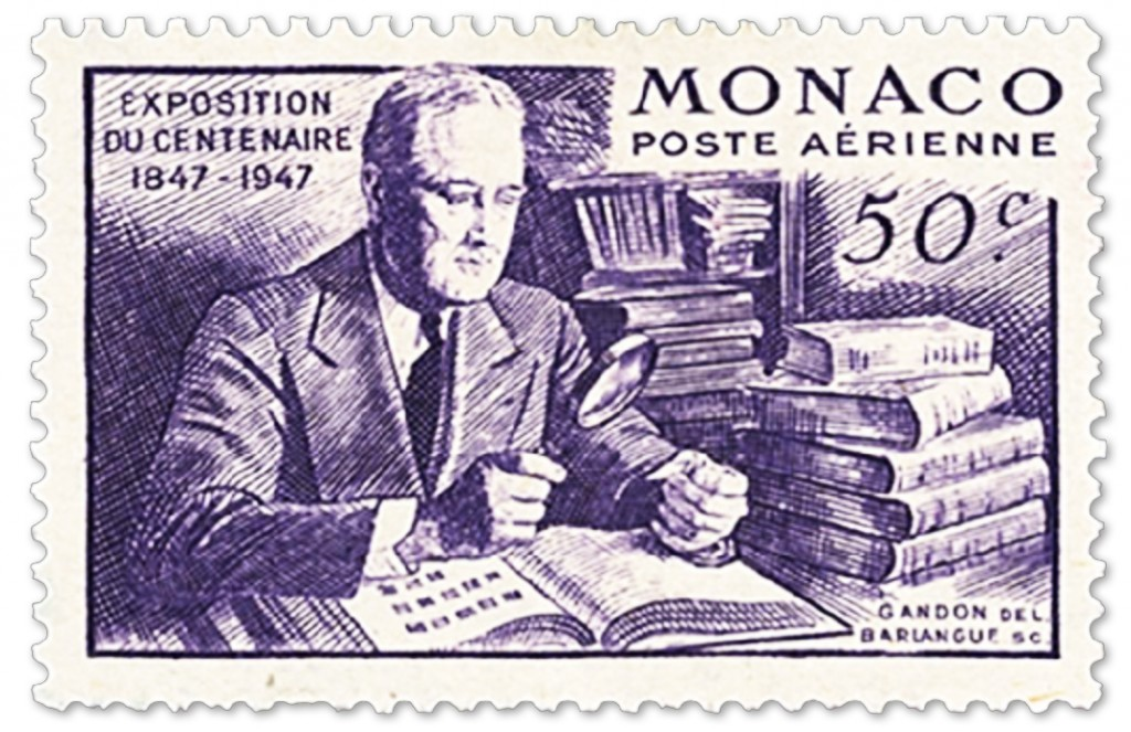 Monaco Stamp 6 fingers